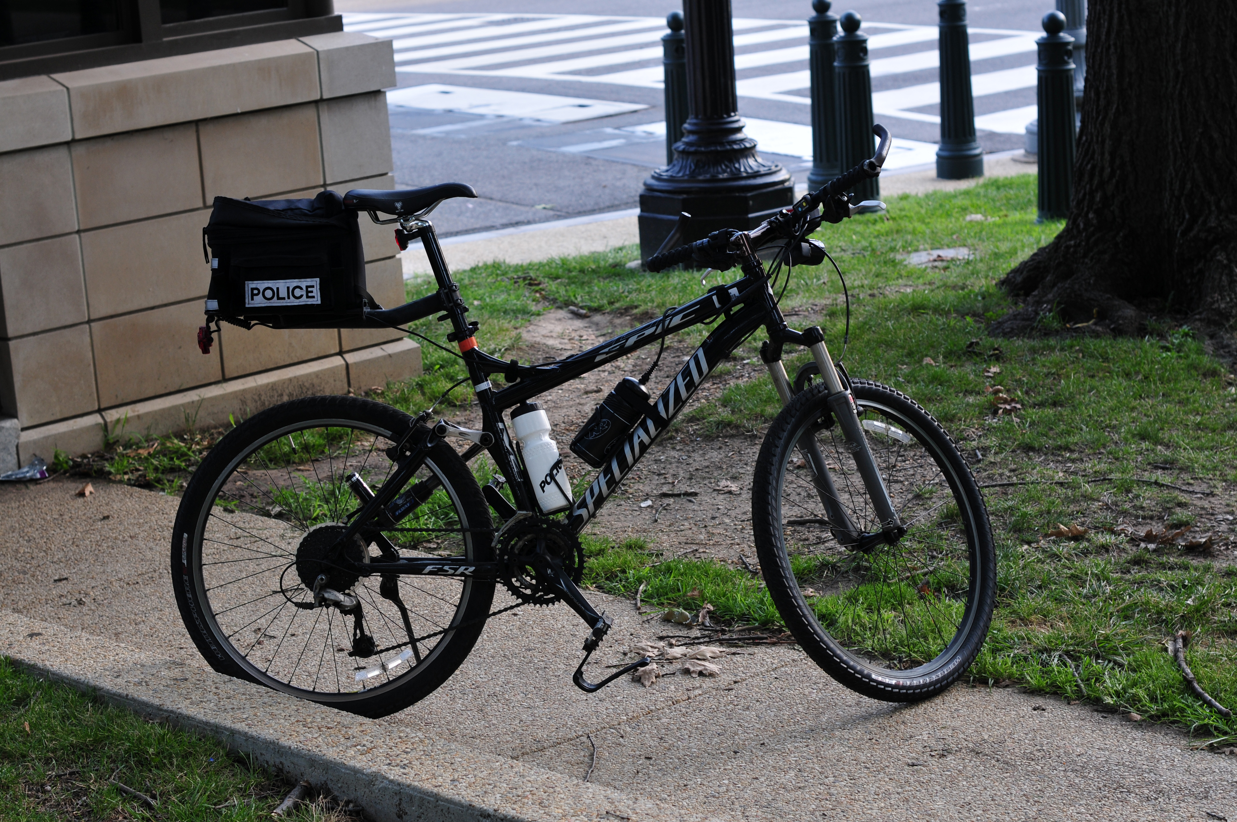 Washington D.C. The making of this work was supported by Wikimedia Austria. For other files made with the support of Wikimedia Austria, please see the category Supported by Wikimedia Österreich.